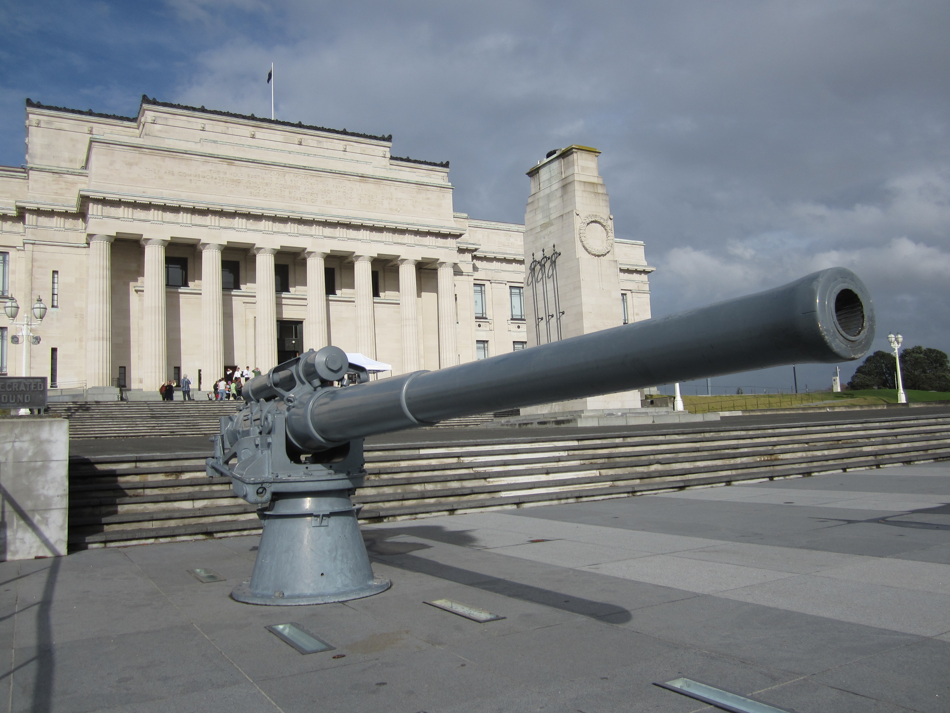 A 4-inch gun from HMS New Zealand in front of the Auckland Museum in June 2012 See also : File:4-inch gun from HMS New Zealand in front of the Auckland Museum in June 2012.JPG : same gun, different view